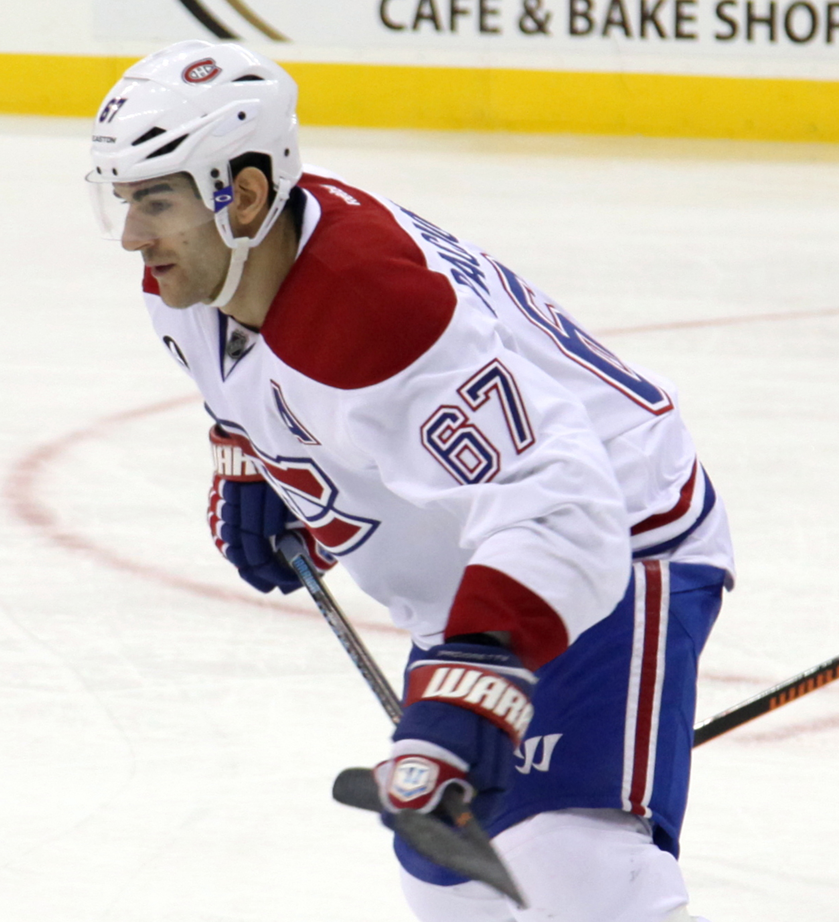 Max Pacioretty in January 2015.